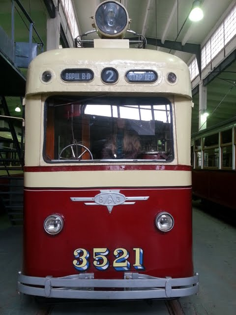 Tram LM-47/LP-47 (USSR)